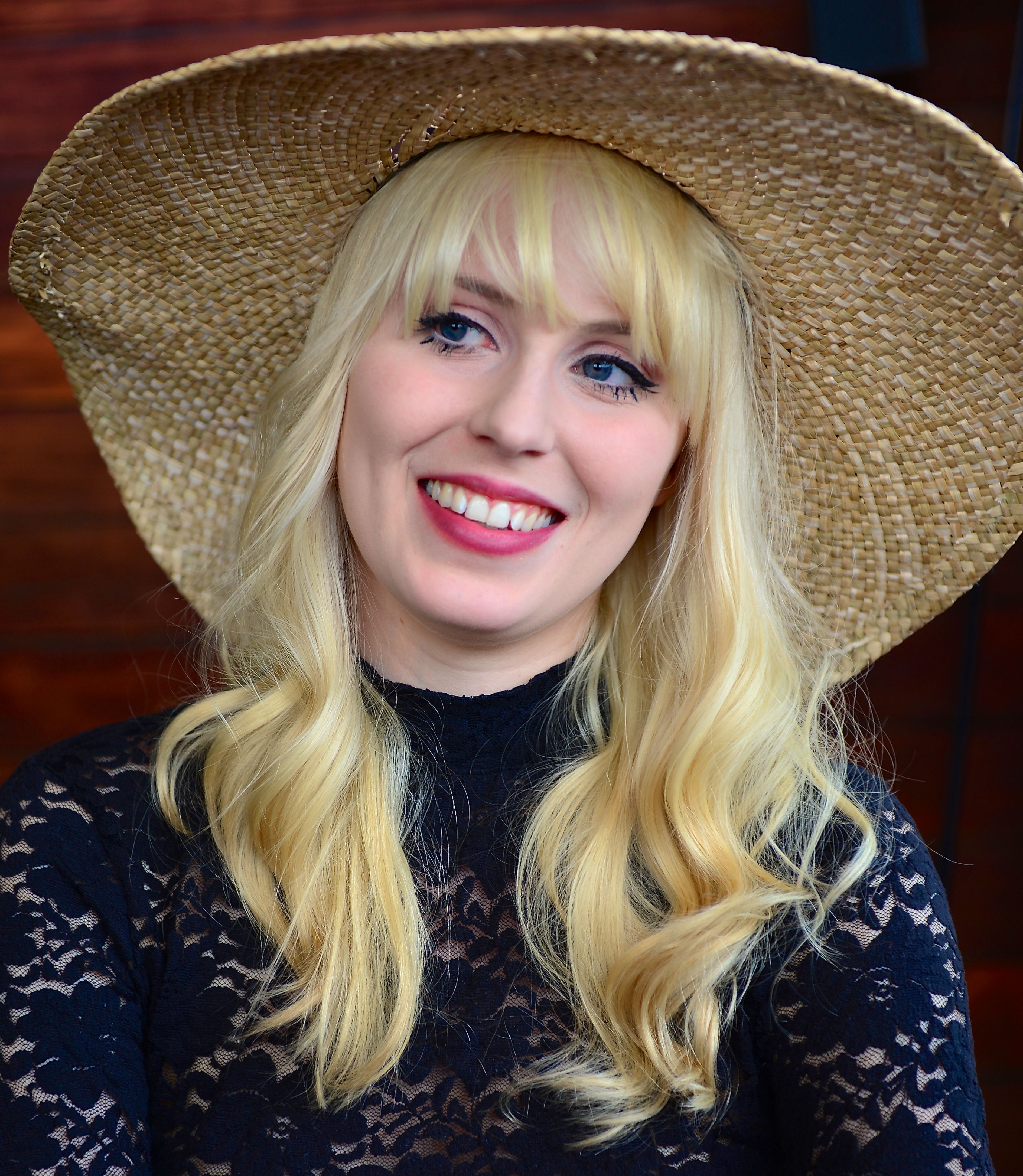 Amanda Jenssen during the stage presentation to Allsång på Skansen in Stockholm June 11, 2013.